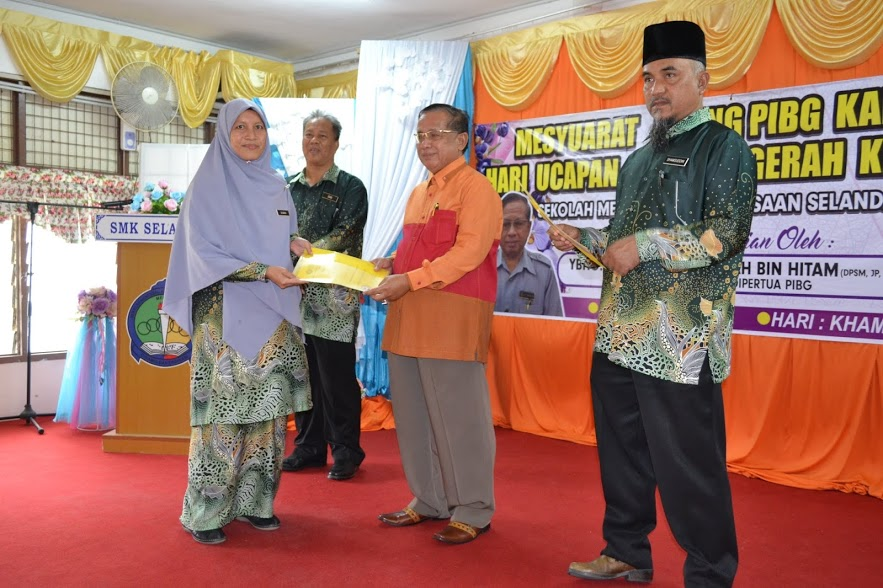 GAMBAR 15